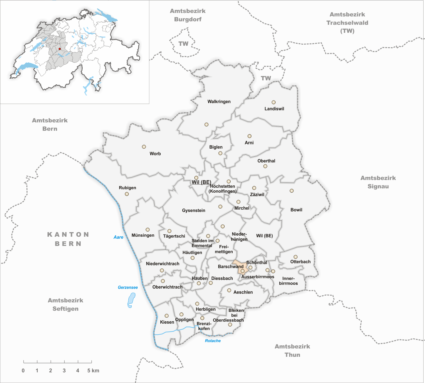 Municipality Barschwand